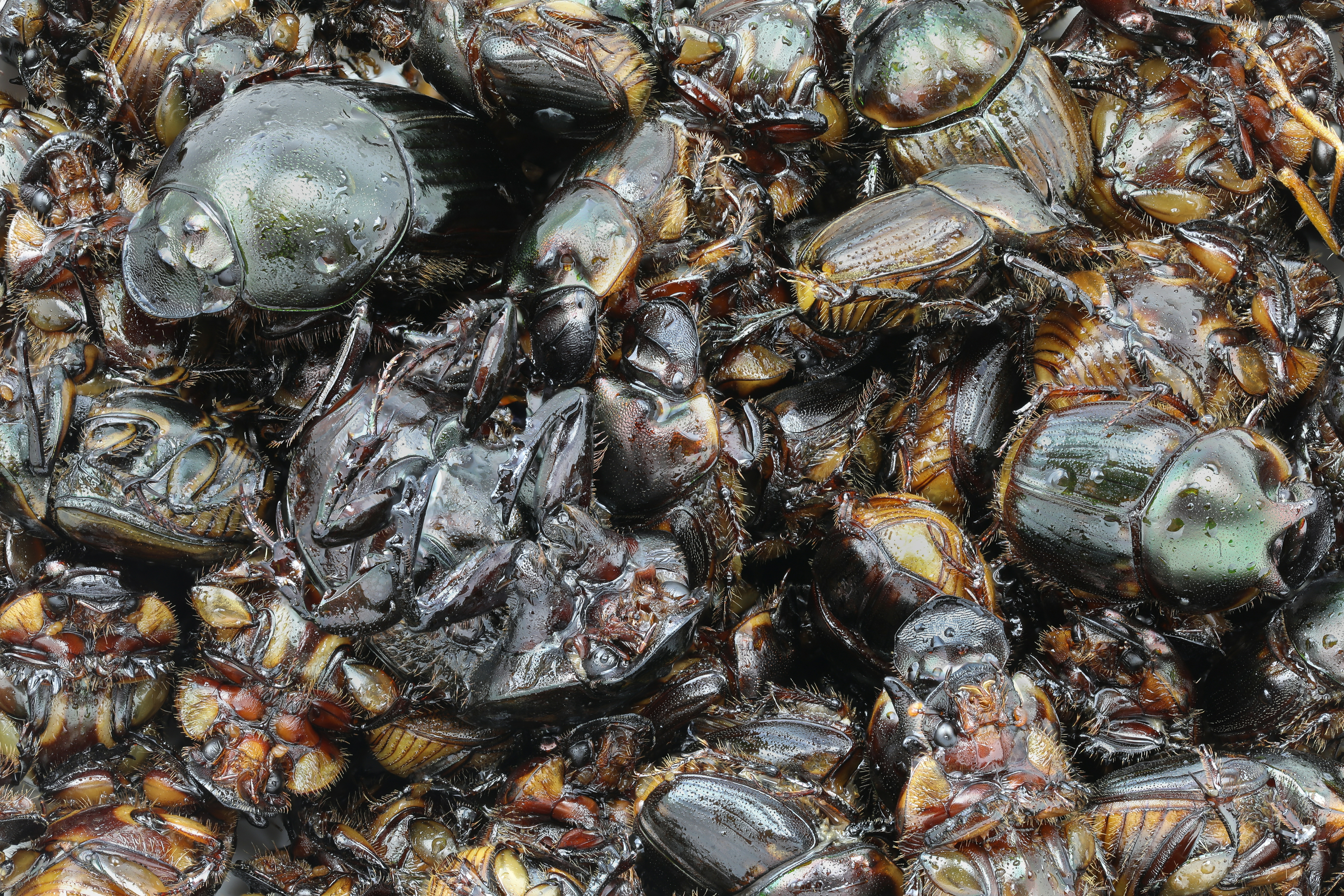 Fried beetles in Asian cuisine (Entomophagy). Focus stacking from 34 pictures, studio shots, Laos.